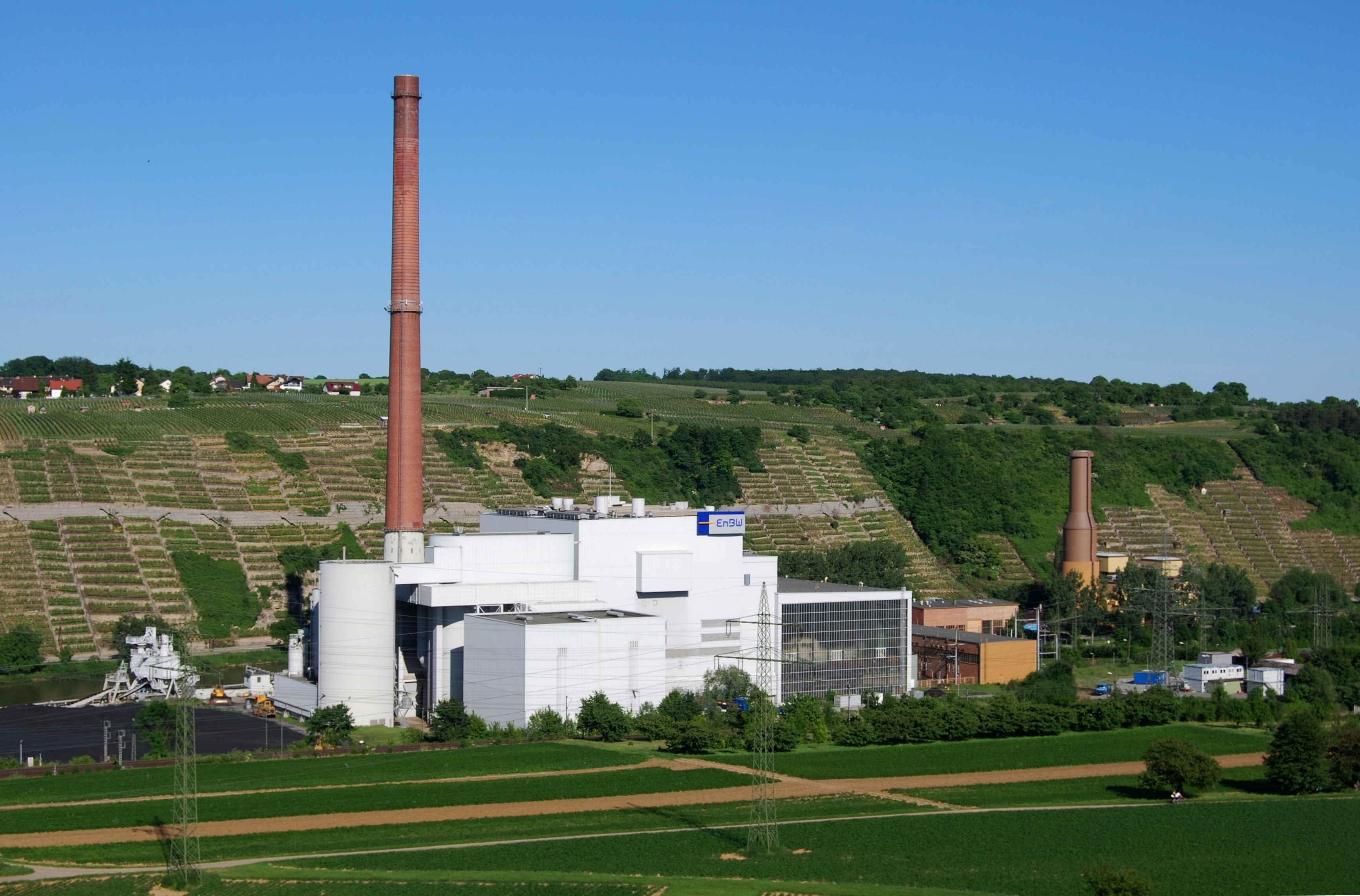 Walheim power plant, Germany: two coal-fired units at the left, a gas turbine on the right.